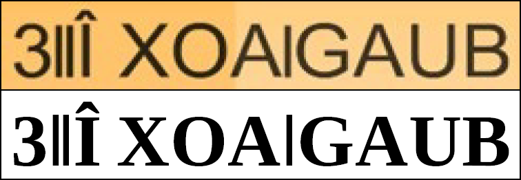 Detail of the title page (above) and the half-title (below) page from: Khoekhoegowab: 3ǁî xoaǀgaub = orthography 3. Namibia Publishing House, 2002, ISBN 978-9-991604-08-4 – showing click letters